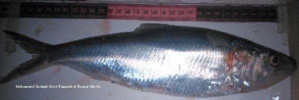 Caspian Sea, Noor Beach, 2013, 32 cm (TL), Iran